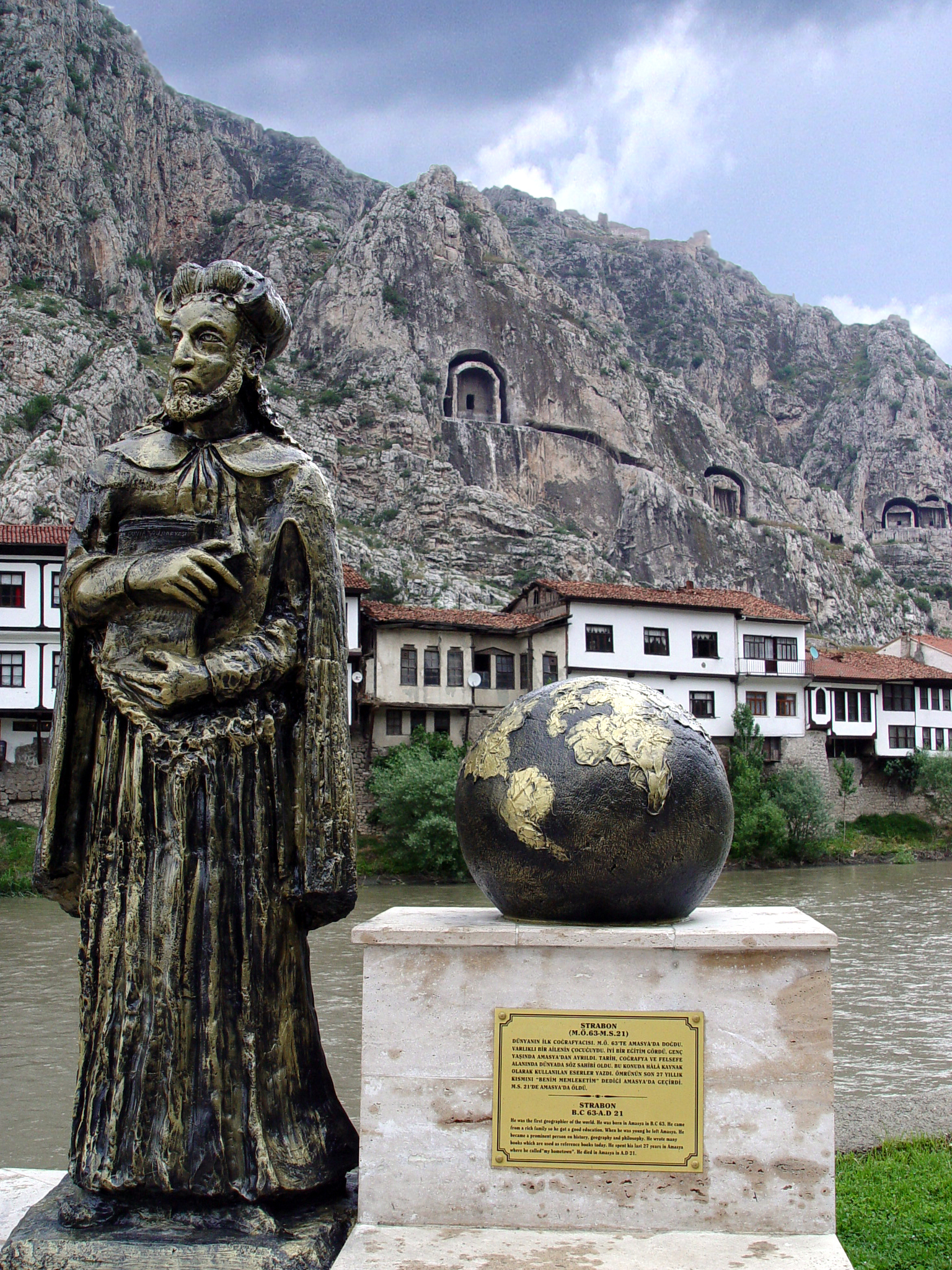 Statue of Strabo in Amasia along Iris River